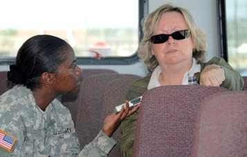 Army Spc. Shanita Simmons of the 241st Mobile Public Affairs Detachment interviews Madame Anne-Marie Lizin, president of the Belgian Senate, during a visit to Joint Task Force Guantanamo last June. – JTF Guantanamo photo by Army Sgt. Joseph Scozzari